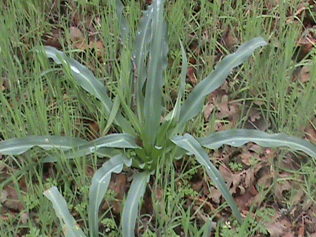 Soap plant (Chlorogalum pomeridianum) — used by native peoples as soap, a medicinal plant, and to catch fish in ponds. Often found in California chaparral and woodlands habitats.